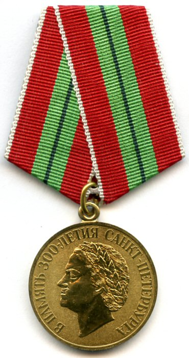 Russian Federation medal instituted on 19 February 2003 to commemorate the 300th anniversary of the foundation of the city of St Petersburg. Awarded to participants of the wartime defense of Leningrad, persons awarded a medal for the defense of Leningrad; residents who were blockaded in Leningrad; wartime workers who worked during the Great Patriotic War of 1941 - 1945 years in Leningrad and awarded state awards; citizens who have made a significant contribution to the development of St Petersburg.